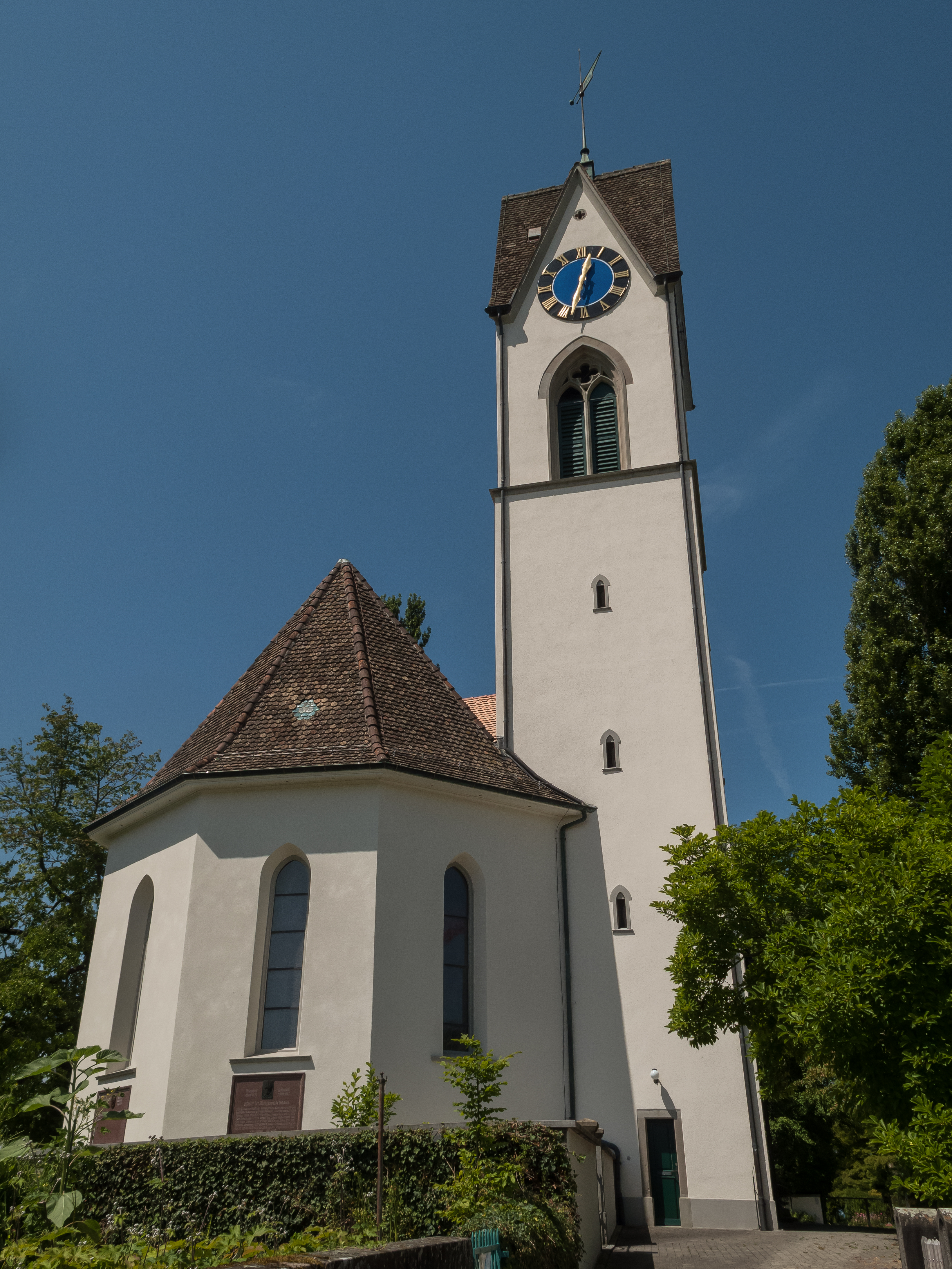 Uetikon, reformed church